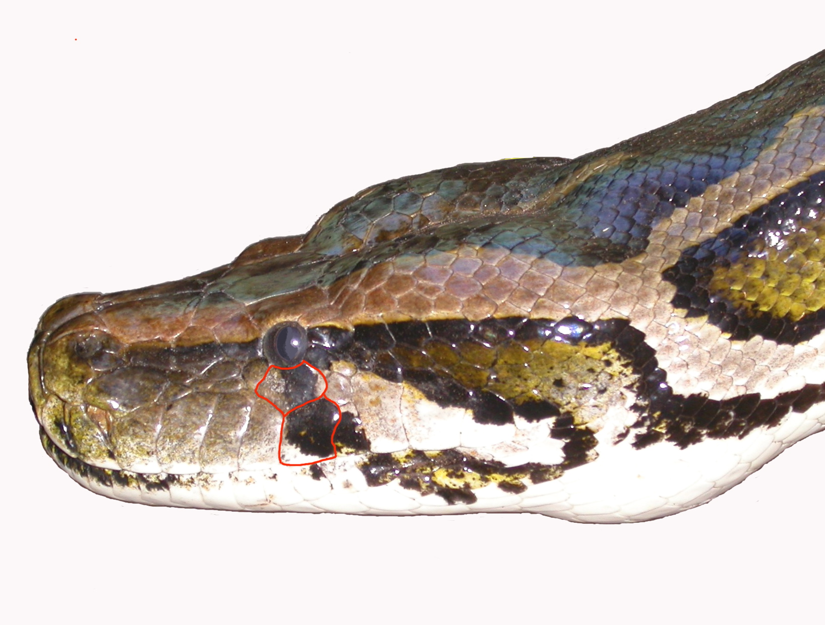 Face of an adult Dark Phase Asian Rock Python / Burmese Python (Python molurus bivittatus) This picture shows the head scale characteristic of this subspecies: The Supralabial-Scales don’t reache the lower edge of the eye directly. Ther are Subocular-Scales in between. (This animal lives in captivity) Inspirated through: Jerry G. Walls: "The Living Pythons";T. F. H. Publications, 1998: S. 131-142,142-146, 159-166,166-171; ISBN 0-7938-0467-1